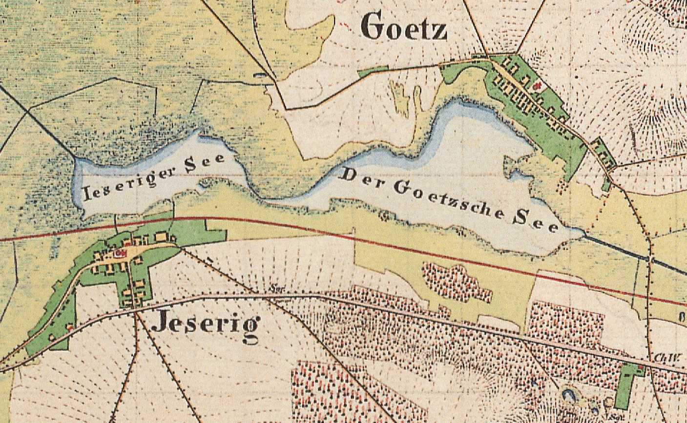 Götz and Jeserig, Gem. Groß Kreutz, Lkr. Potsdam-Mittelmark, Brandenburg, Germany, detail from the Urmesstischblatt Sheet 3542 Groß Kreutz, drawn in 1839